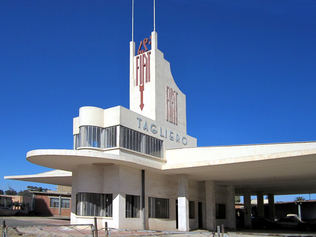 The futuristic Fiat Tagliero Building (1938) in Asmara, Eritrea. It was built to resemble an aircraft.